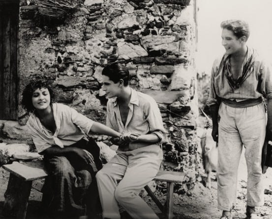 L. to R. : Desdemona Mazza, Ivor Novello & Gabriel de Gravone in L'Appel du sang - publicity still